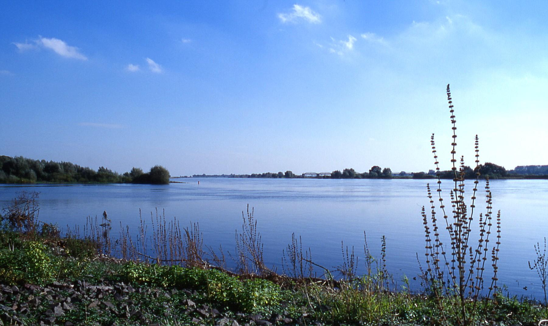 The Elbe at german river kilometre 505 (Dömitz).